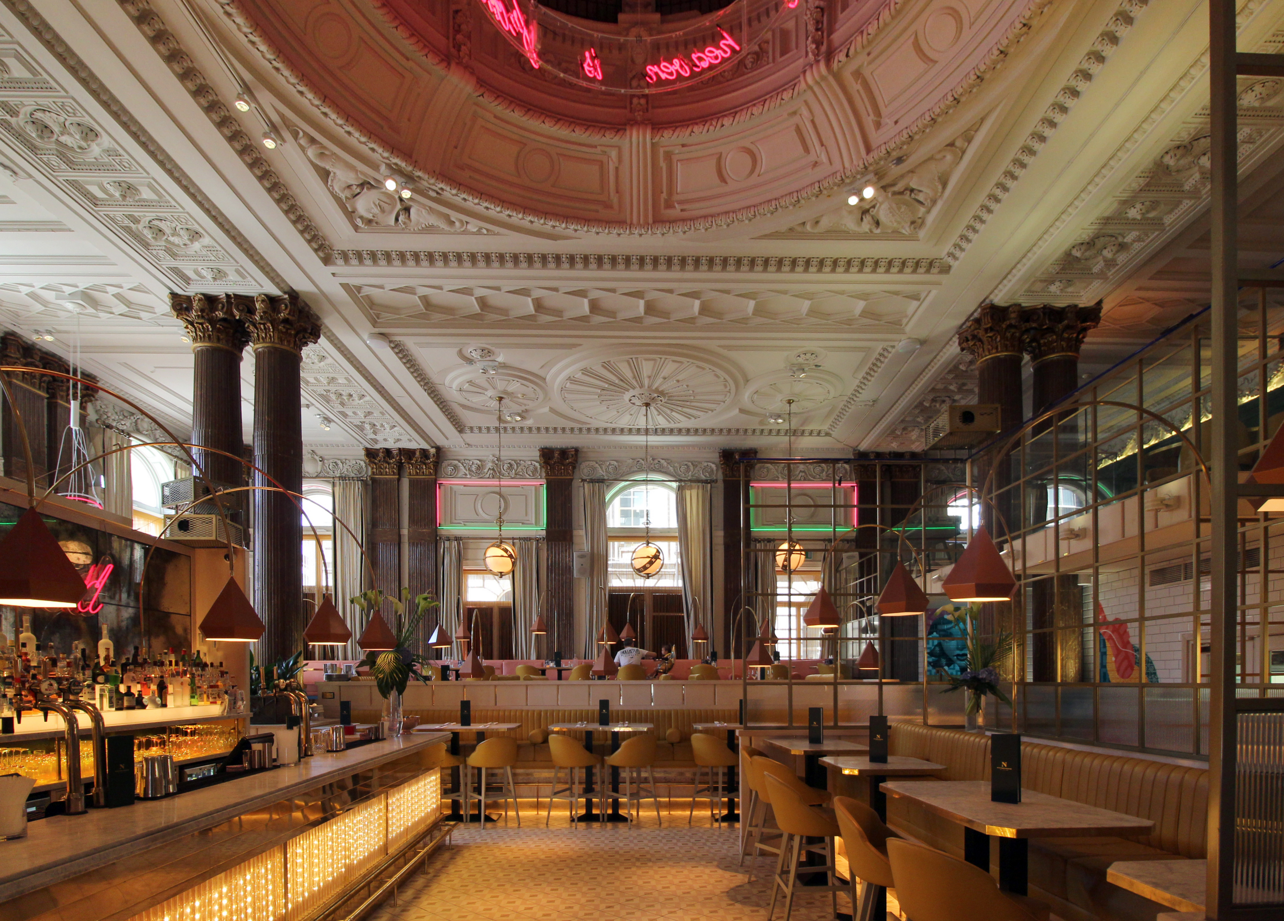 The former banking hall, now the restaurant. Corinthian columns, decorated ceiling, dome and marble floor all shown. View from the entrance.